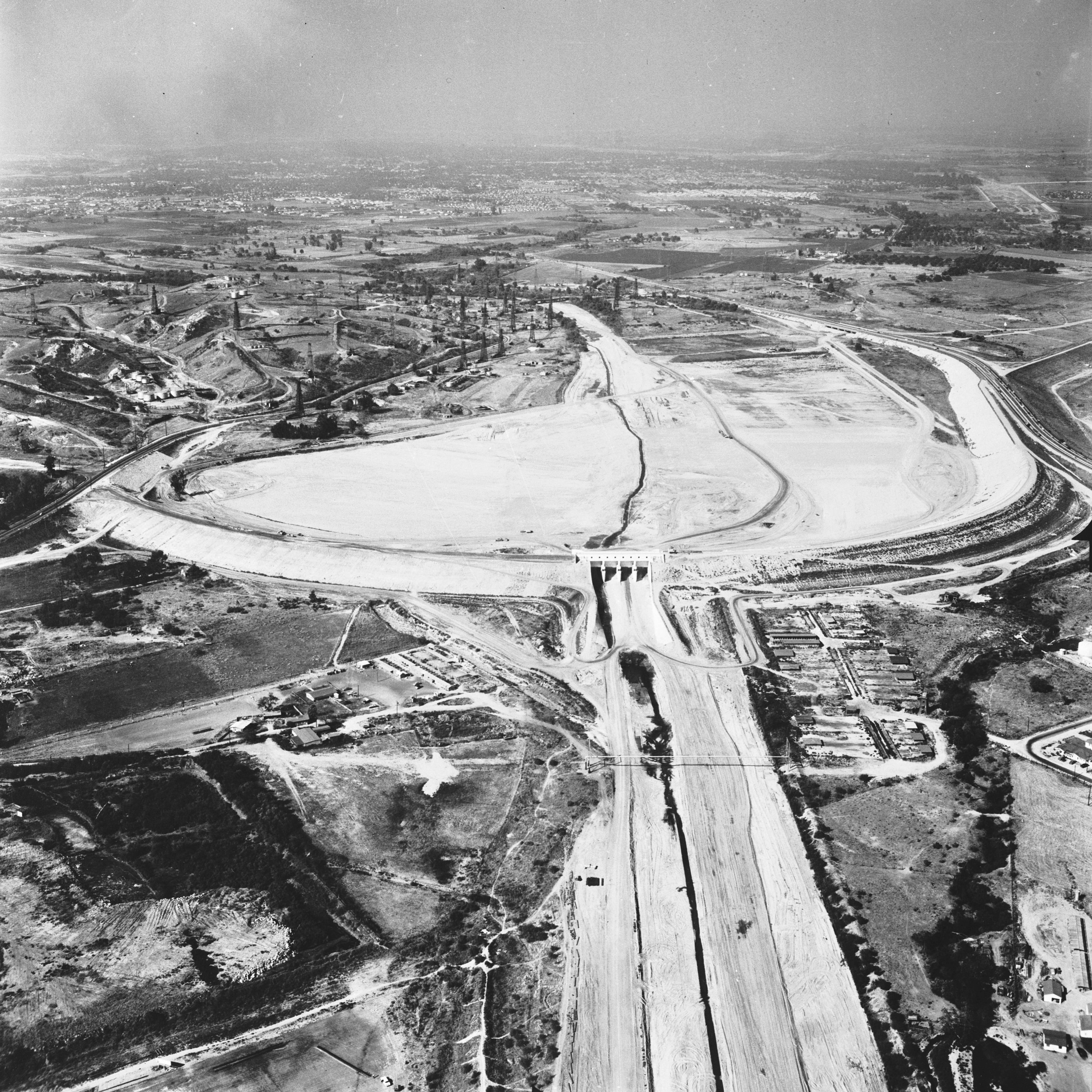 Whittier Narrows dam project (copy), 1957 Supplementary material reads: "Caption material, flood control. Map from Army Corps of Engineers shows entire L.A. county drainage project. Whittier Narrows Dam. Photo from Army Corps of Engineers. Taken when construction nearly completed".